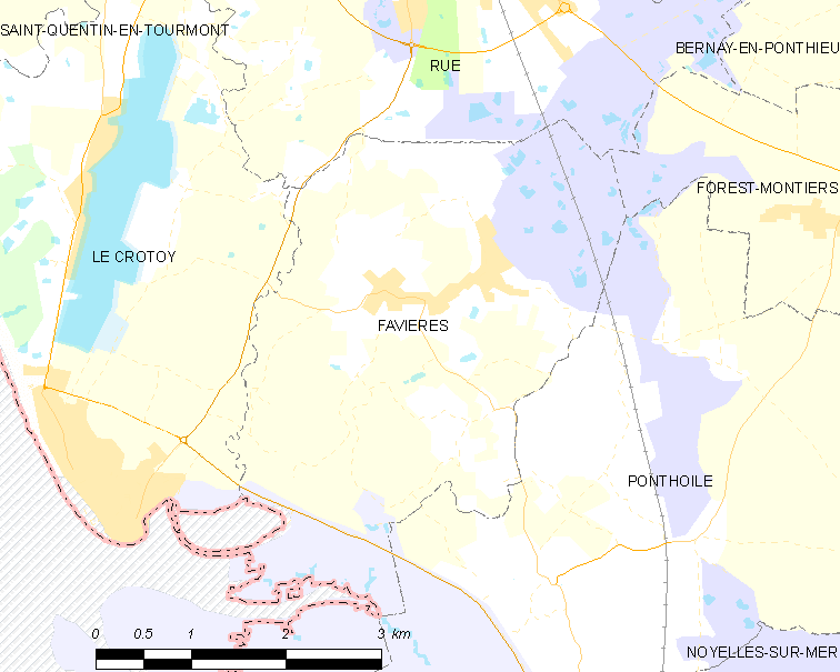 Map of French municipality Favières